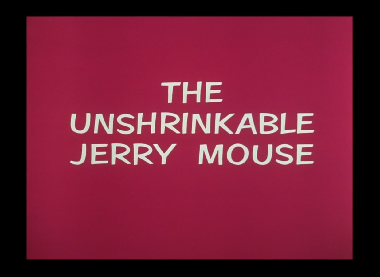 Title card of the 1964 cartoon, The Unshrinkable Jerry Mouse